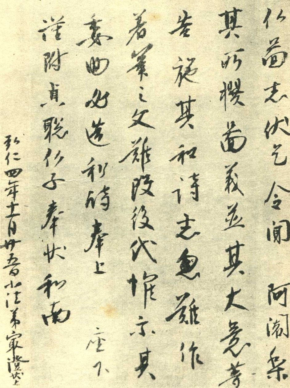 Shakuhai written by Saicho